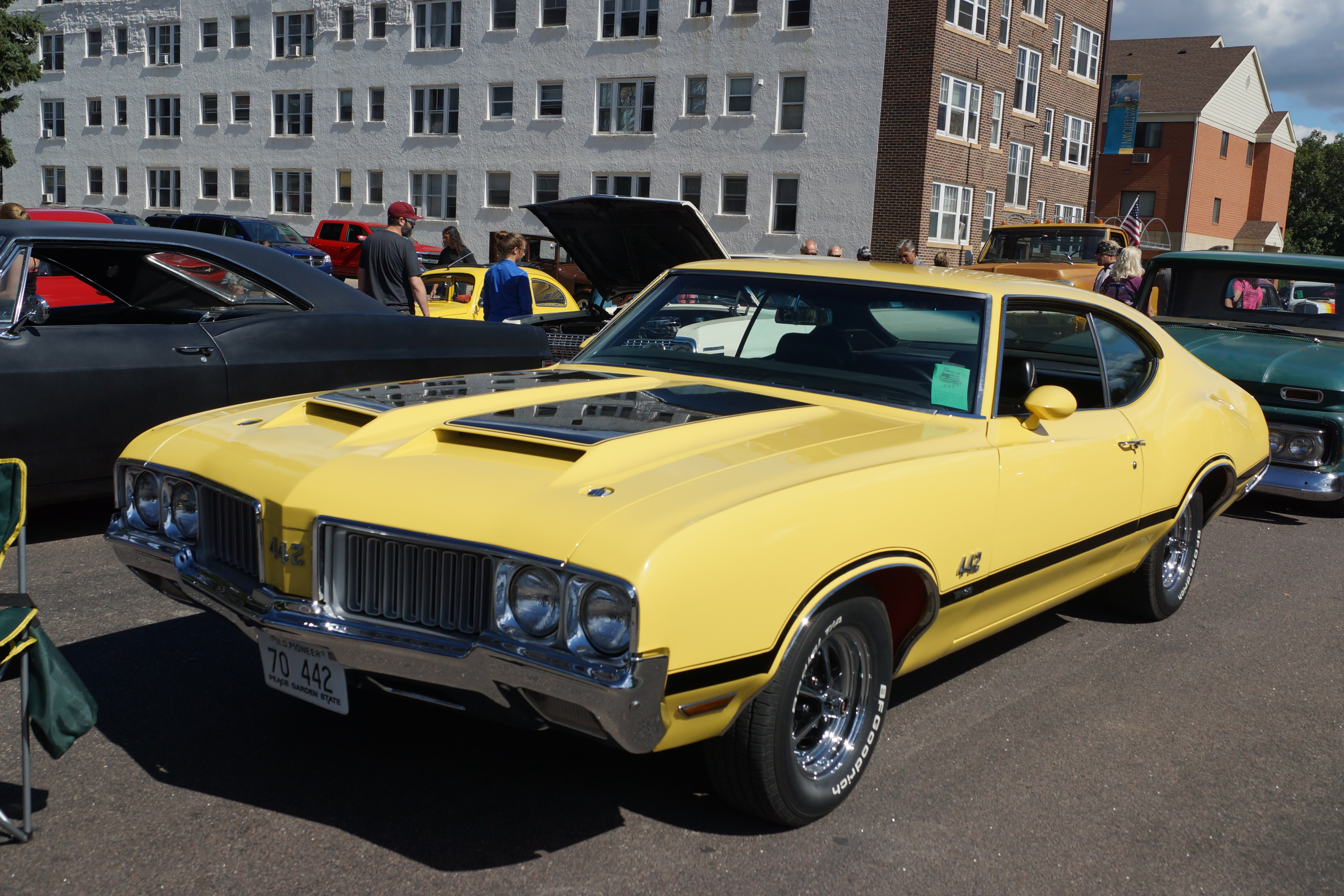 37th ANNIVERSARY VINTIQUES ROD RUN & KAMP OUT Show & Shine Uptown Watertown Watertown, South Dakota September 2016 Click here for more car pictures at my Flickr site.